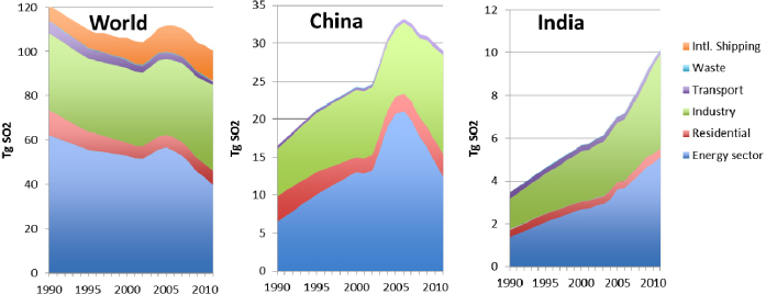 Sectorial trend in global, China, and Indian SO2 emissions since 1990, Tg SO2. Note different scales: i.e., India about 1/3 of China and the latter 1/3 of the world emissions.